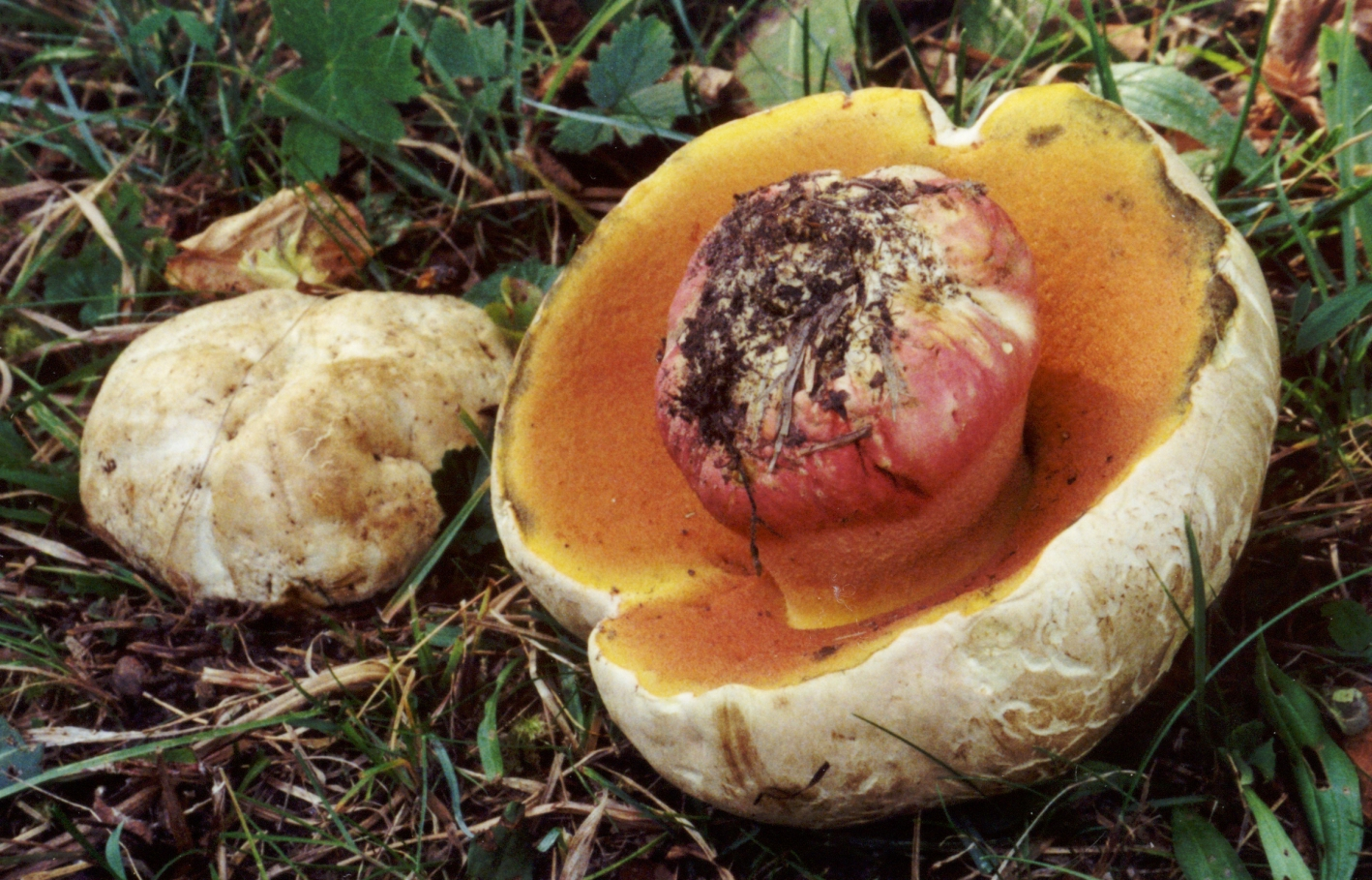 Boletus satanas Lenz Image location: Gotland, Sweden There are european boletes that sometimes are misinterpreted as satanas too, particularly B. rhodoxanthus, which looks even more like your eastwoodiae (pinkish hues on the cap that satanas doesn’t have), so the mix-up is not hard to understand. Recognized by sight For more information about this, see the observation page at Mushroom Observer.